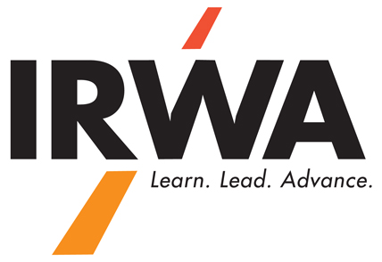 International Right of Way Association Official Logo 2011